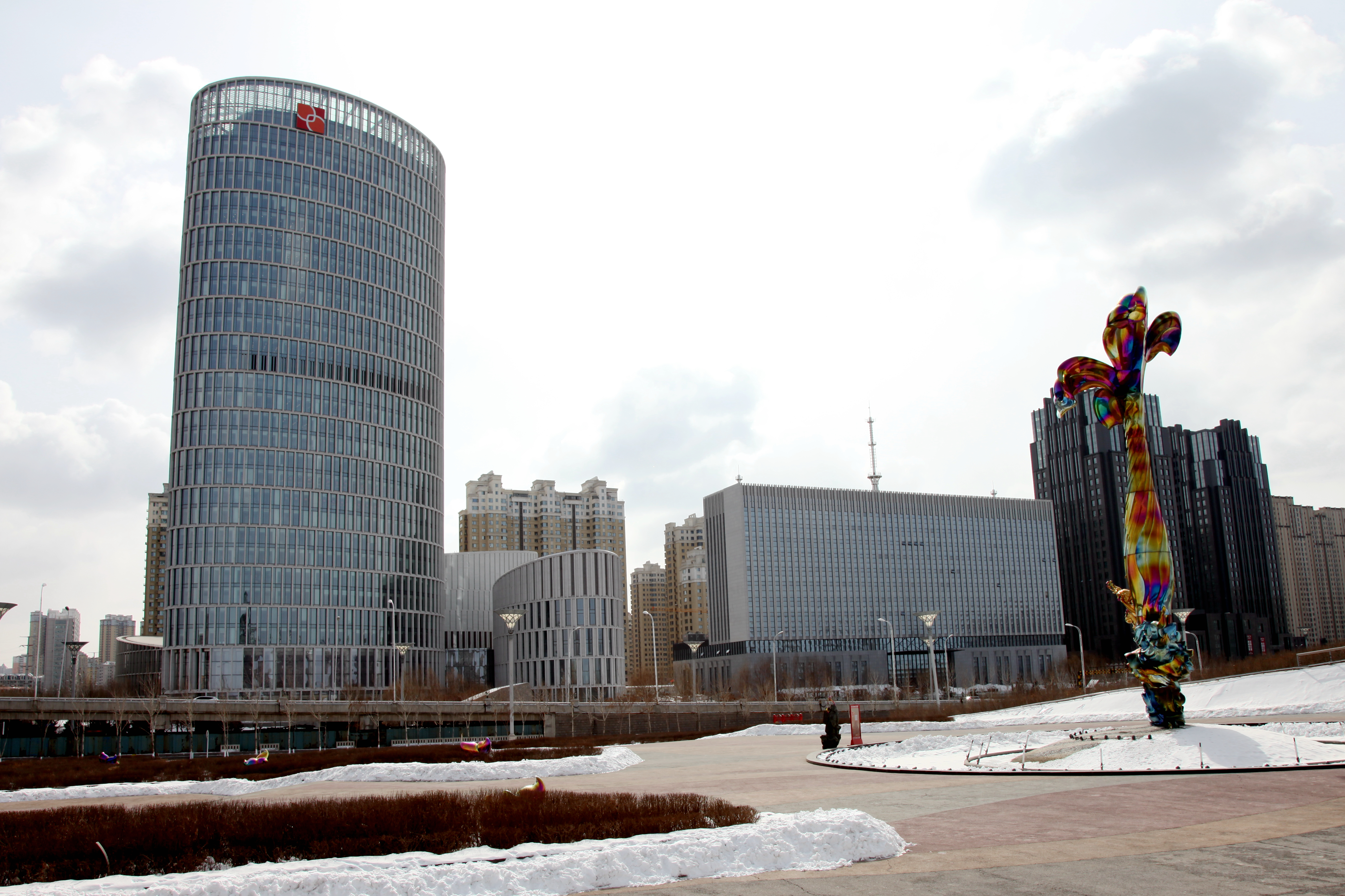 Headquarter of Harbin Bank, located inHarbin, Heilongjiang, China